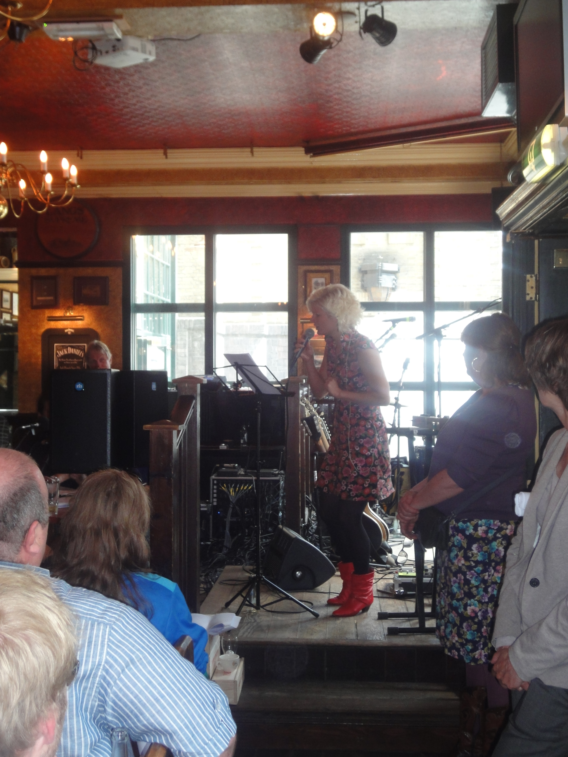 The end song of the radio show performed by Hanneke Drenth.